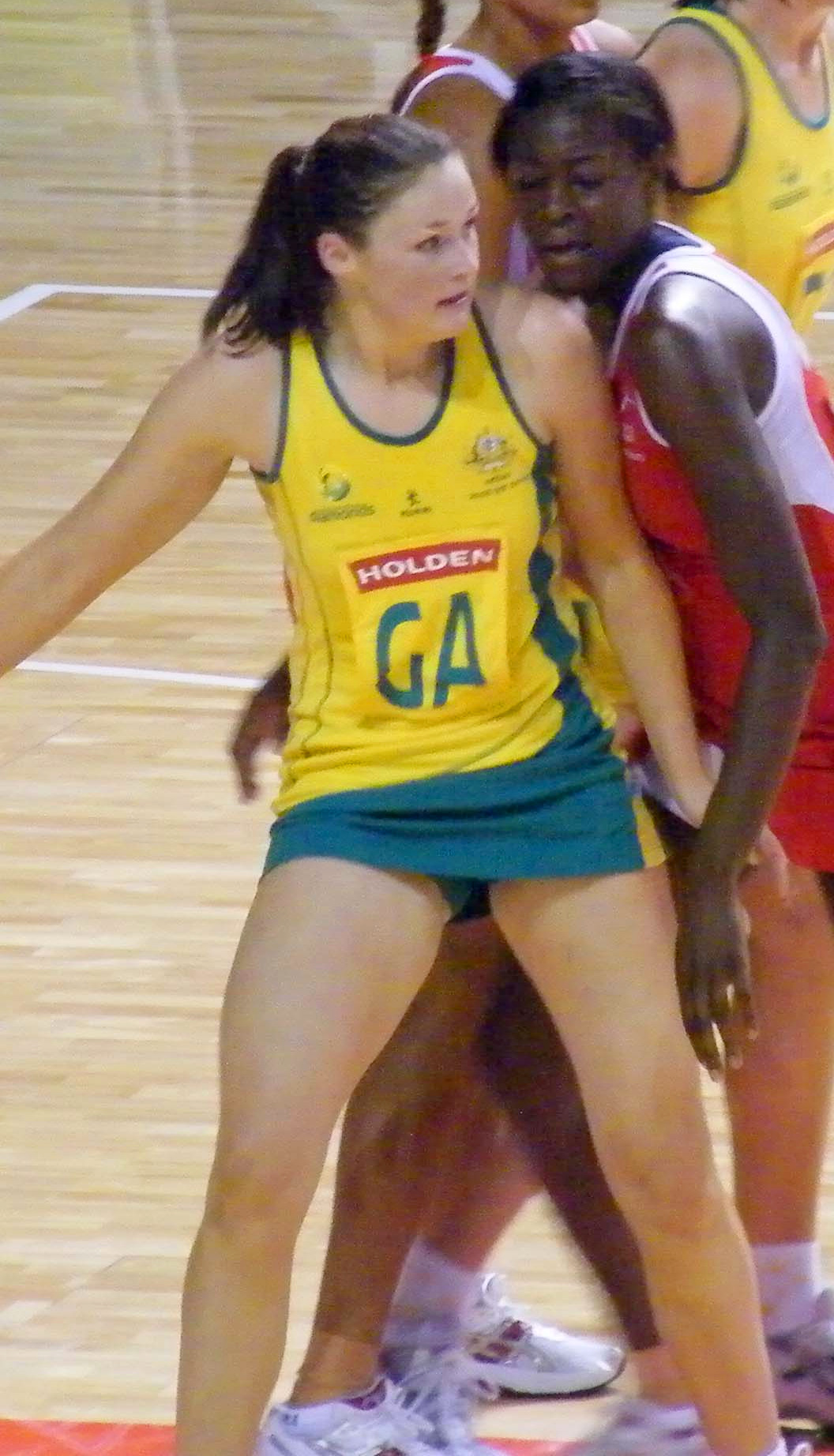 Australia v England Netabll Test - Adelaide, October 2008.